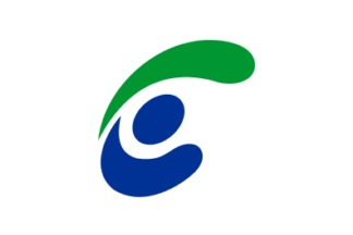 Flag of Echizentown Fukui